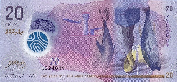 New 2015 Maldives 20 Rufiyaa Banknote